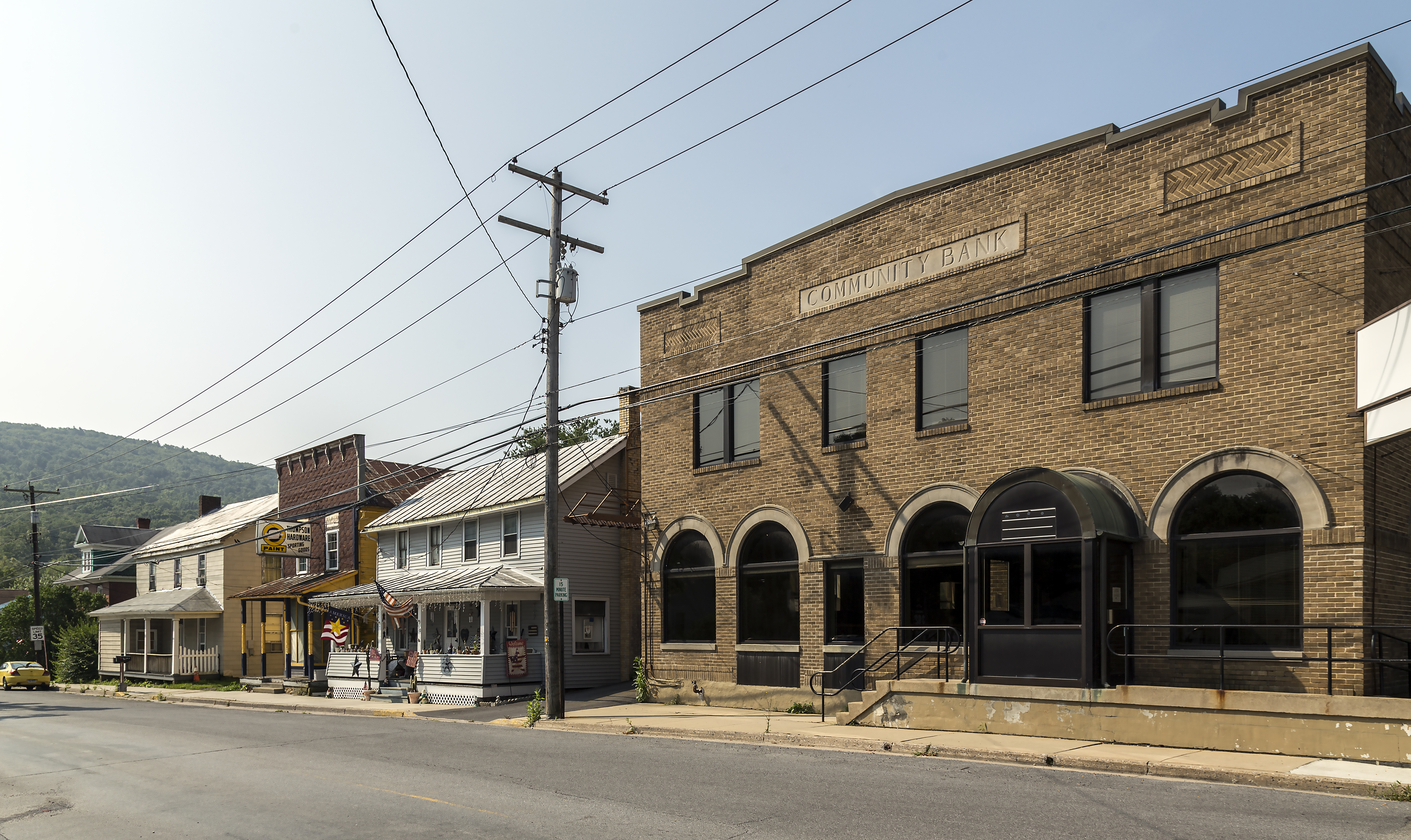 Streetscape in Port Matilda, Pennsylvania, USA